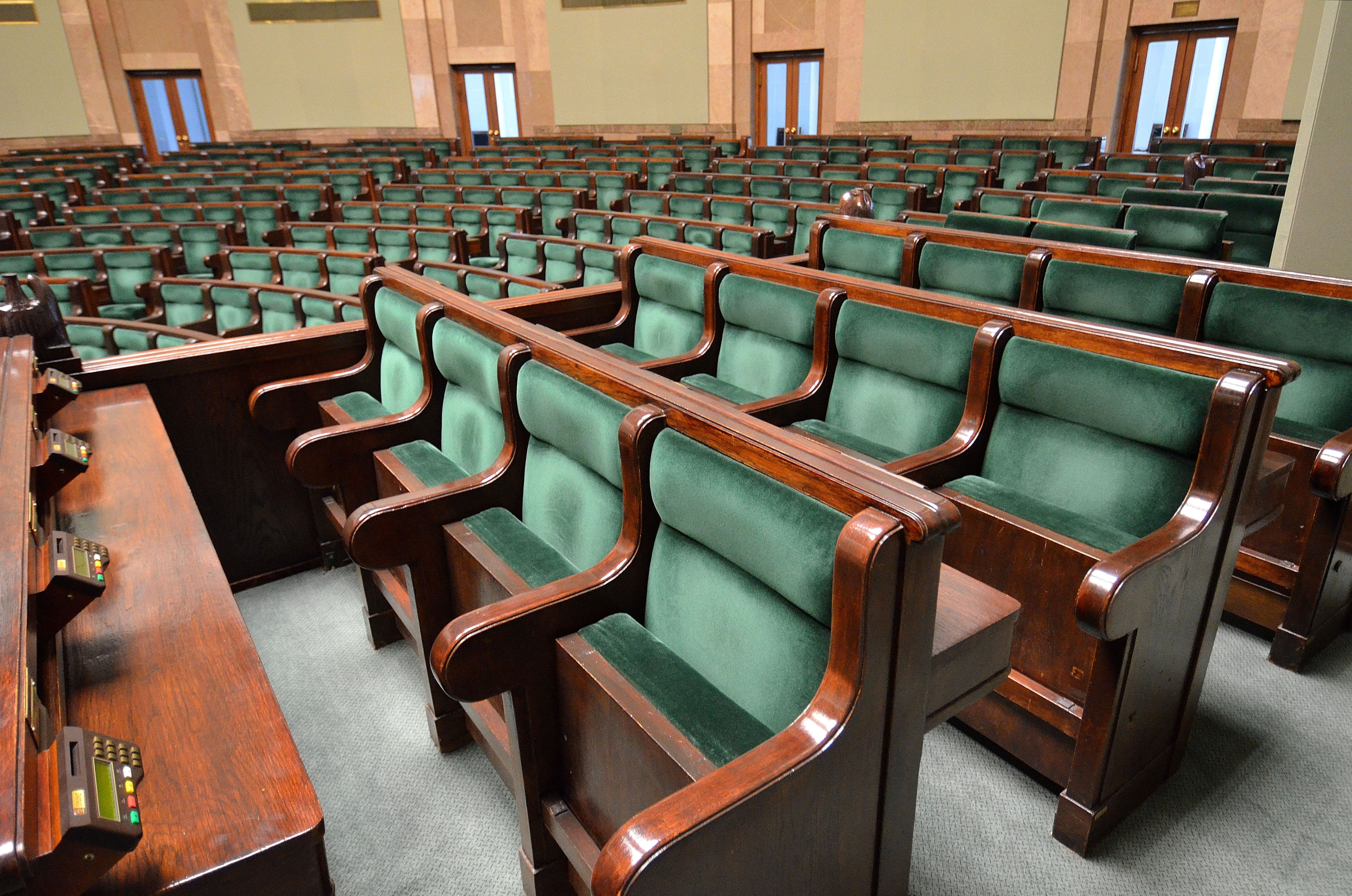 Government benches in the Sejm Plenary Hall